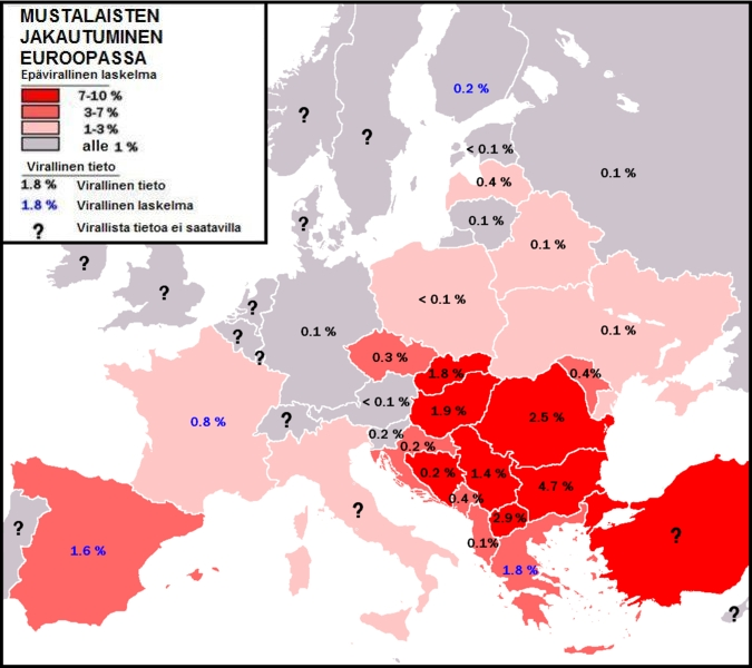 Map about share of gipsies in Europa, the english map in finnish, (kartassa värit ilmaisevat siis oikean tiedon, ja numerot virallisen tiedon), in the map colors are the real information, and the numbers the official information